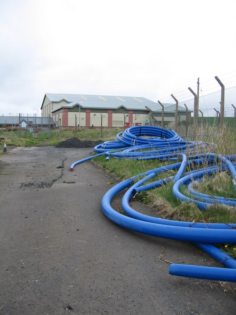 Water Works at Amlaird